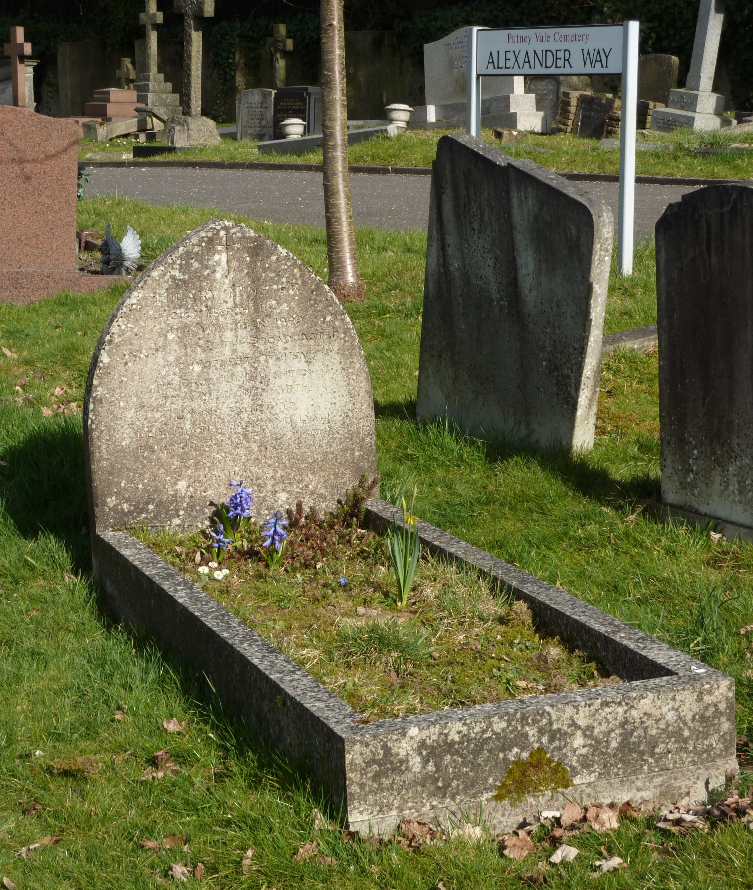 The grave of British actor Hilary Minster at Putney Vale Cemetery, London, UK.